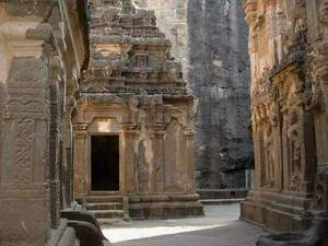 The Kailasanatha temple, in the Ellora Caves, India.